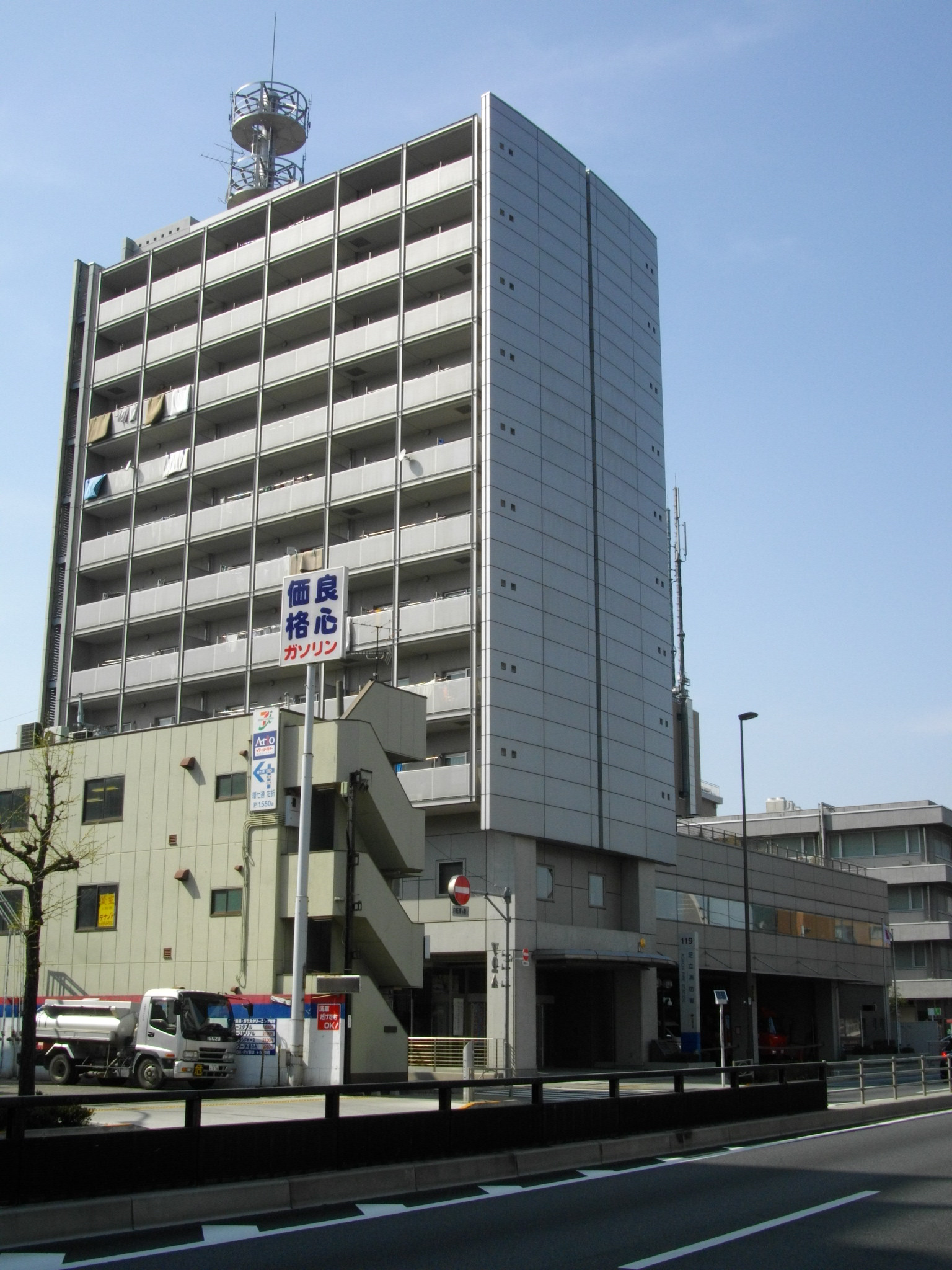 Adachi Fire Station